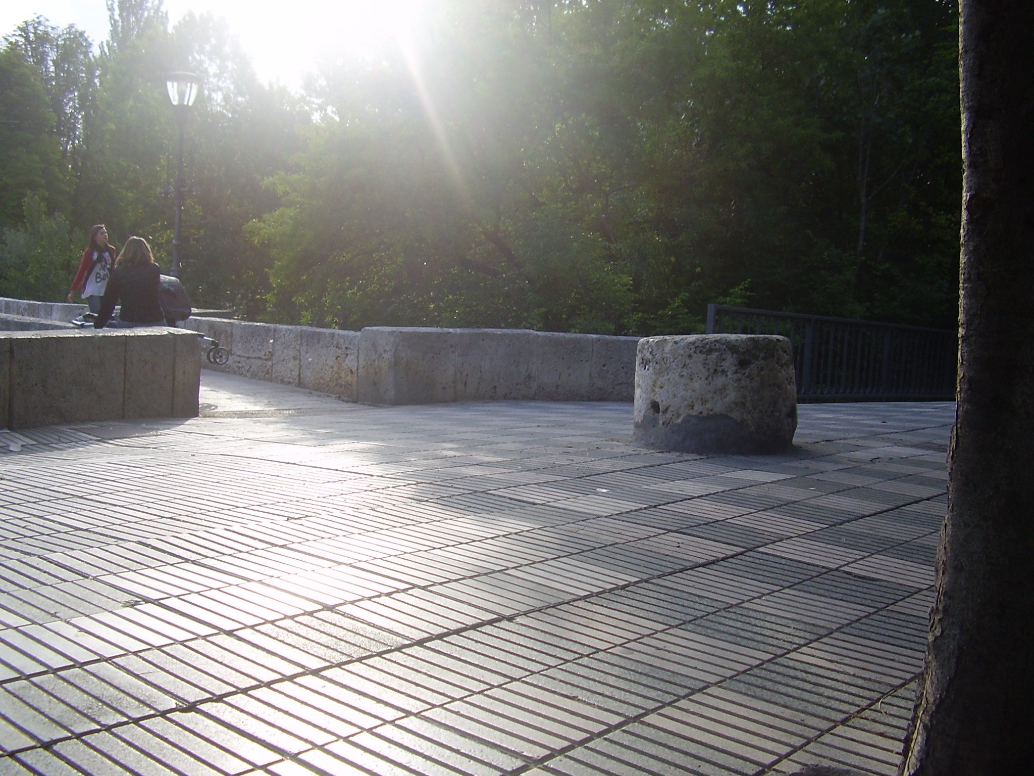 Bolo de la Paciencia (spanish name wich means Patience Stone). It is a cylindrical limestone block who was originaly situated at the exit of Cervantes' Square, close to the Palencia Cathedral, and now is some meters downwards to the river, at Puentecillas: It was used in the past to rest and leave for a while the heavy burden of the laundry while having some gossip.